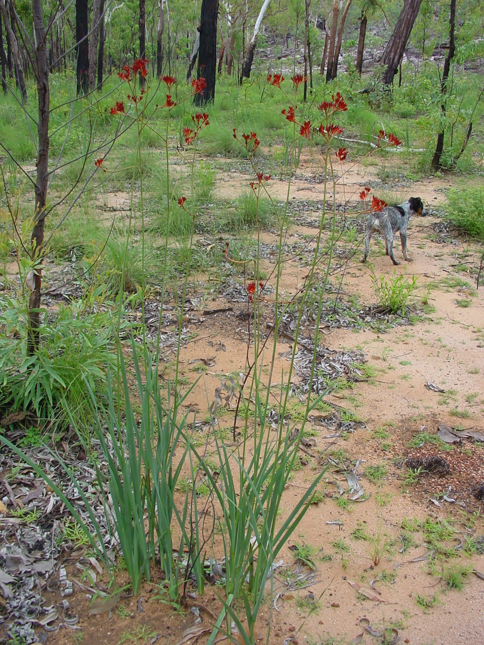 Haemodorum coccineum in flower.